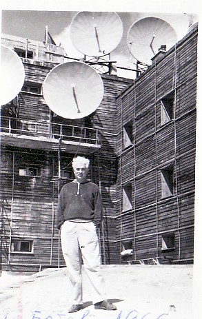 Nedialko Velev in front of radio/tv station Botev vrah in 1966